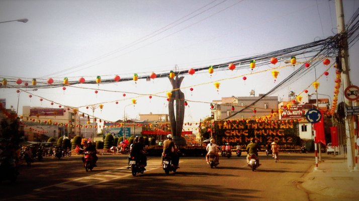 celebrating Tet in Lai Thieu, Binh Duong